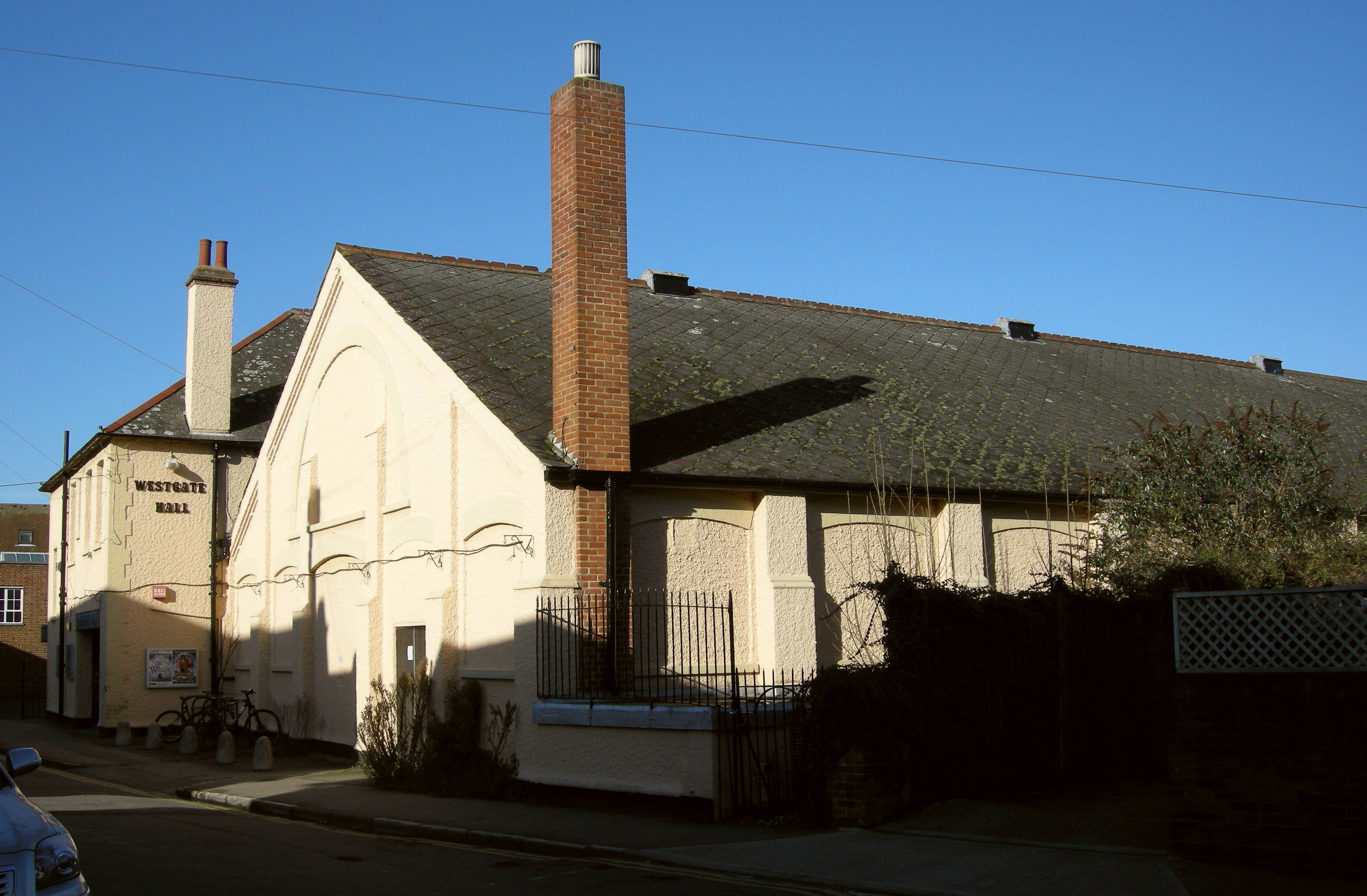 Westgate Hall, Canterbury, Kent. Community hall and dance hall, built around 1900.